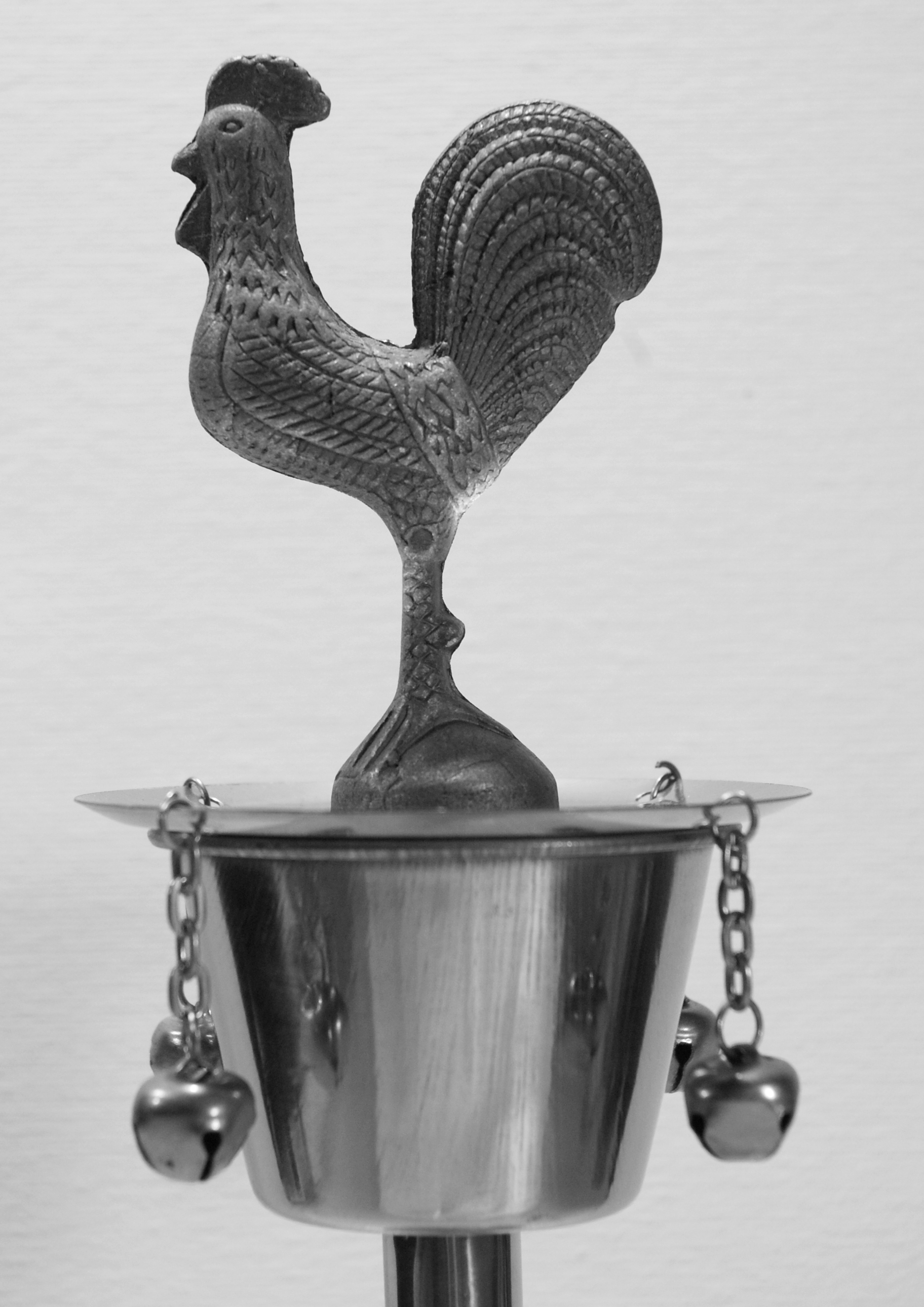 The rooster that sits atop the iron chalice of Osun, one of Santeria's protective Orishas (deities) -- Osun is one of the four Los Guerreros: Eleggua, Ogun, Ochossi and Osun.